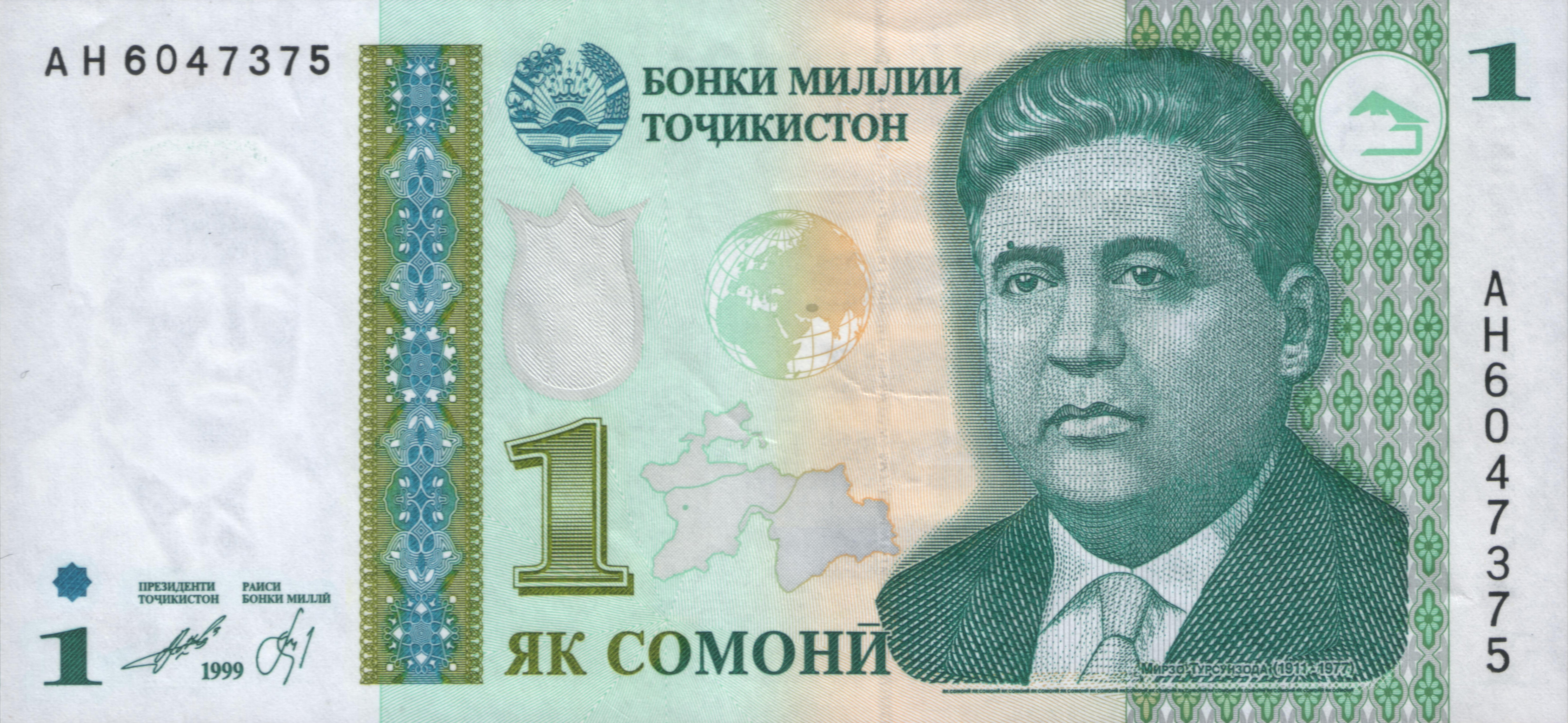 1 Tajikistan somoni 1999